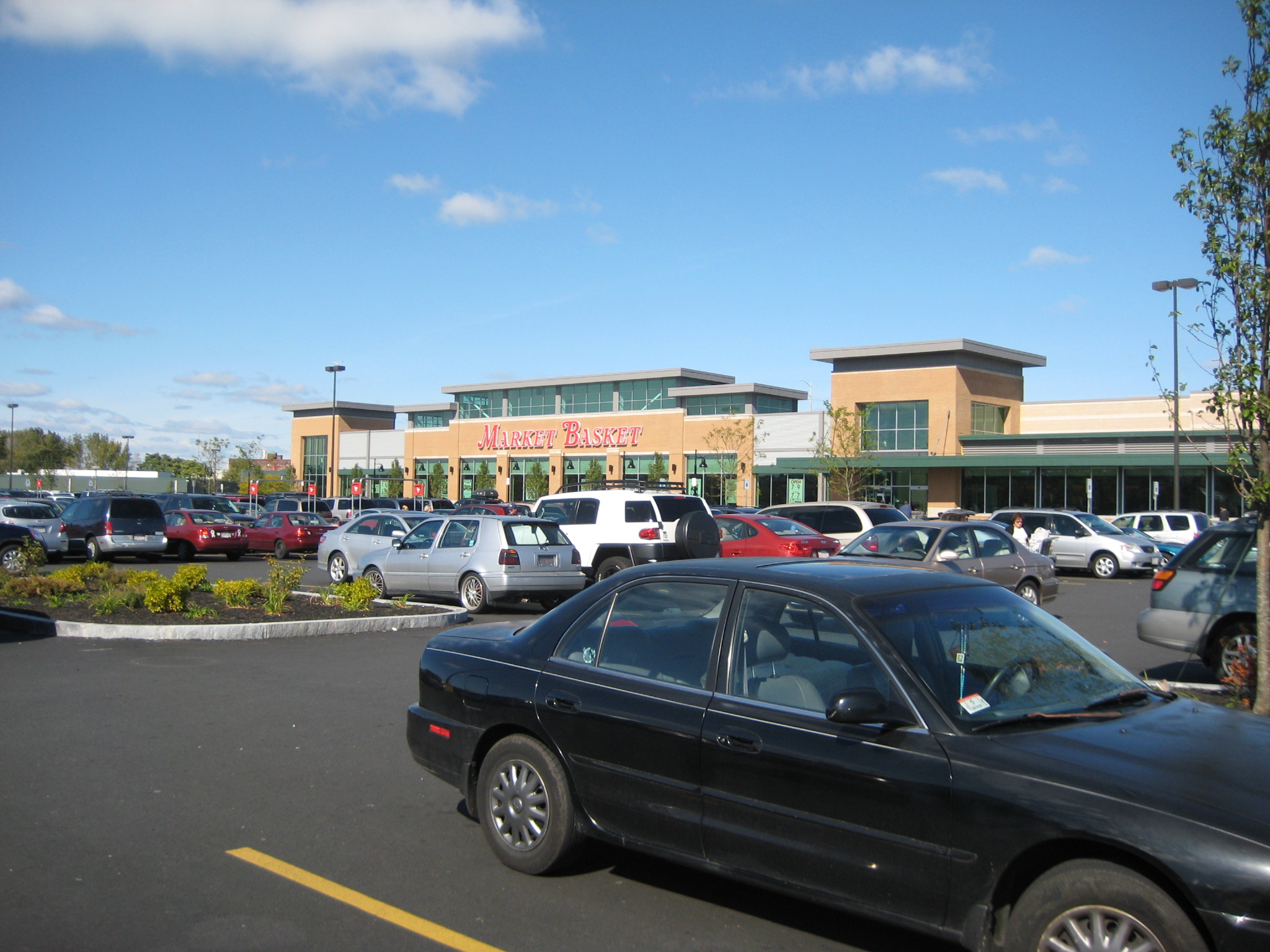 The new Market Basket Store #32 in Chelsea, Massachusetts